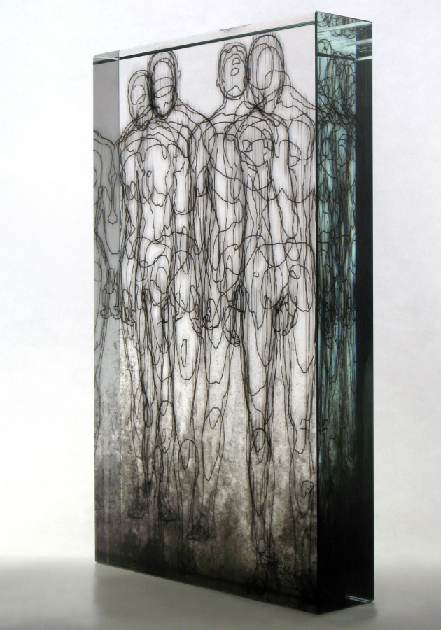 Photograph from Michal Macků